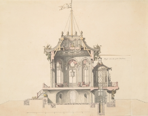 Title : Plan for a Chinese Pavillion Medium : Pen and black and brown ink, with watercolor over a ruled graphite underdrawing on off white laid paper Dimensions : 13 x 17 in. (33 x 43.2 cm) New York, Metropolitan Museum of Art, Gift of Mrs. Charles Wrightsman, 2004 Accession number : 2004.475.7